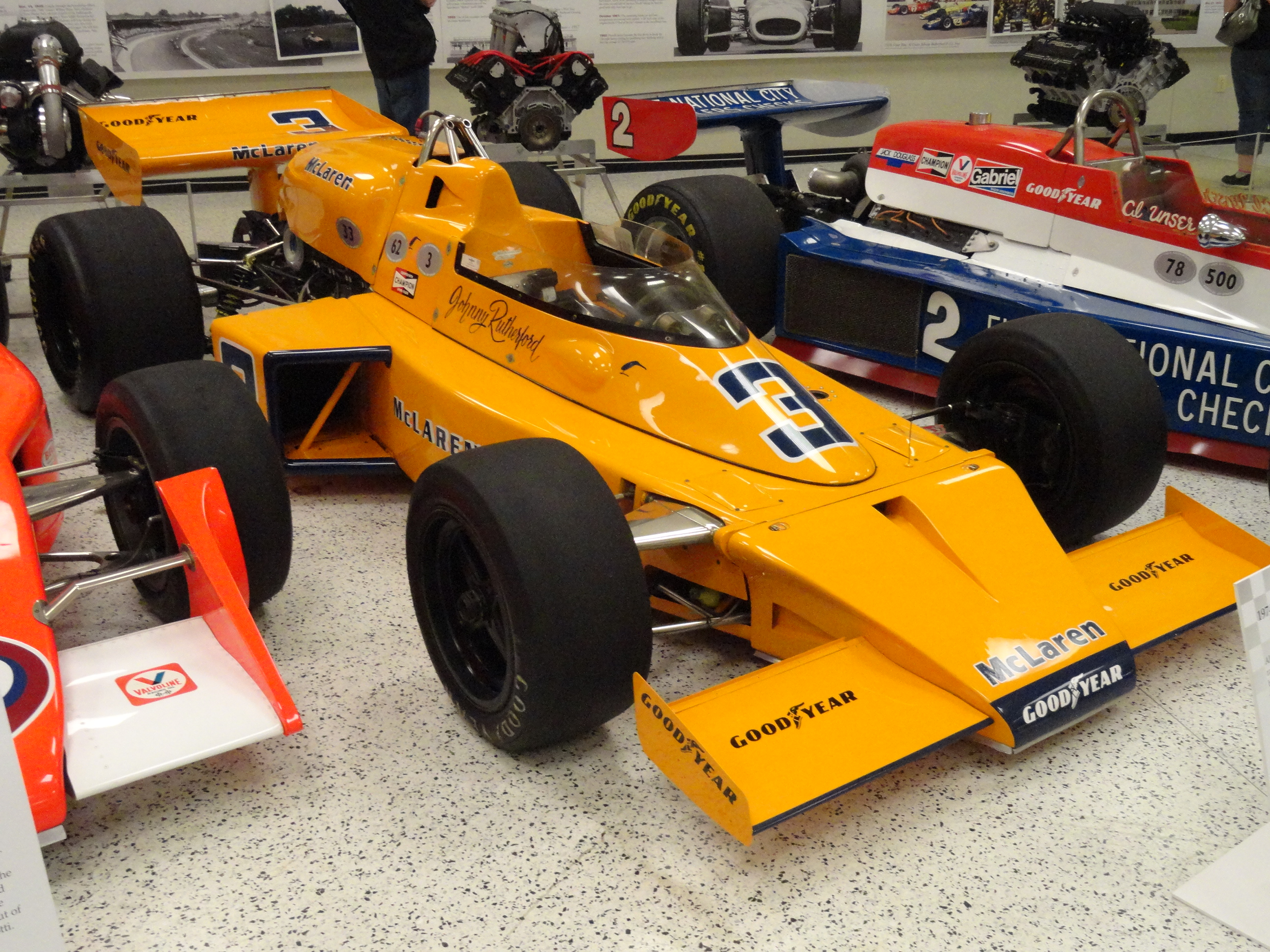 Indianapolis Motor Speedway Museum